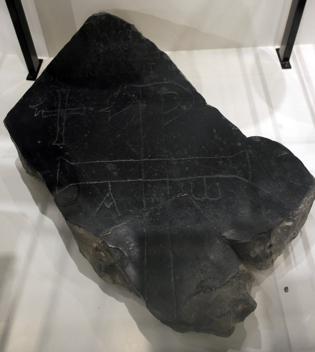 Copy of an early Medieval (5th or 6th century) Christian gravestone, found in the Basilica of Saint Servatius in Maastricht, in the archaeological collections of the Limburgs Museum in Venlo, the Netherlands. The original remains, along with four others from the same period in the church in Maastricht.